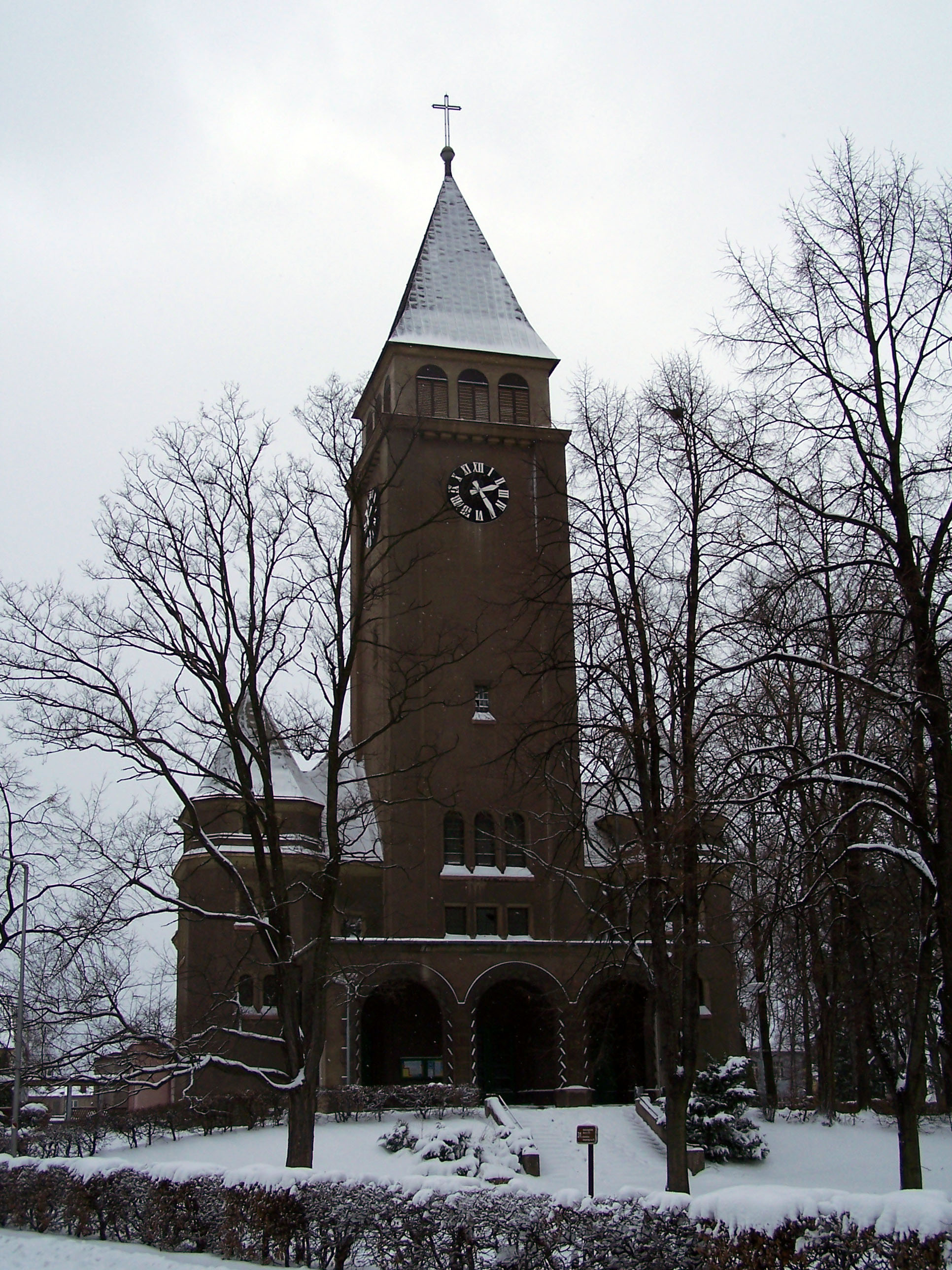 Lutheran church (former German Lutheran Church) in Český Těšín (Czeski Cieszyn)